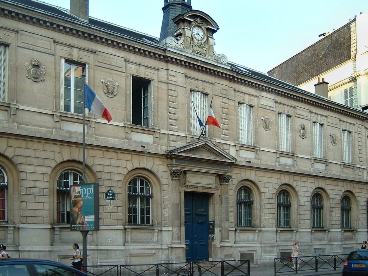 Frontview of the Lycée Condorcet, in Paris.